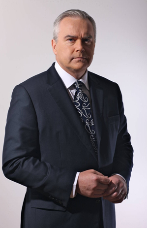 Huw Edwards, broadcaster and journalist and Vice-President of the National Churches Trust